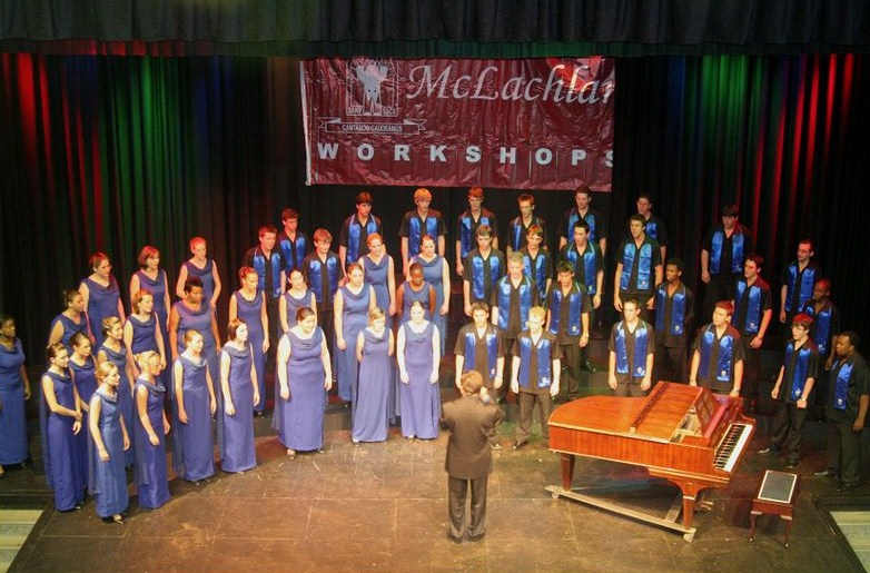 KwaZulu-Natal Youth Choir at McLachlan Festival